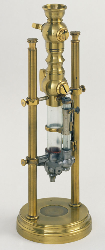 ArtistUnknownAuthorGiovanni Alessandro MaiocchiDescription